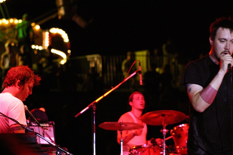 Spencer Albee, Tony McNaboe, and Dave Gutter (l-r) of the Rustic Overtones play at the 2007 Maine Lobster Festival in Rockland, Maine.